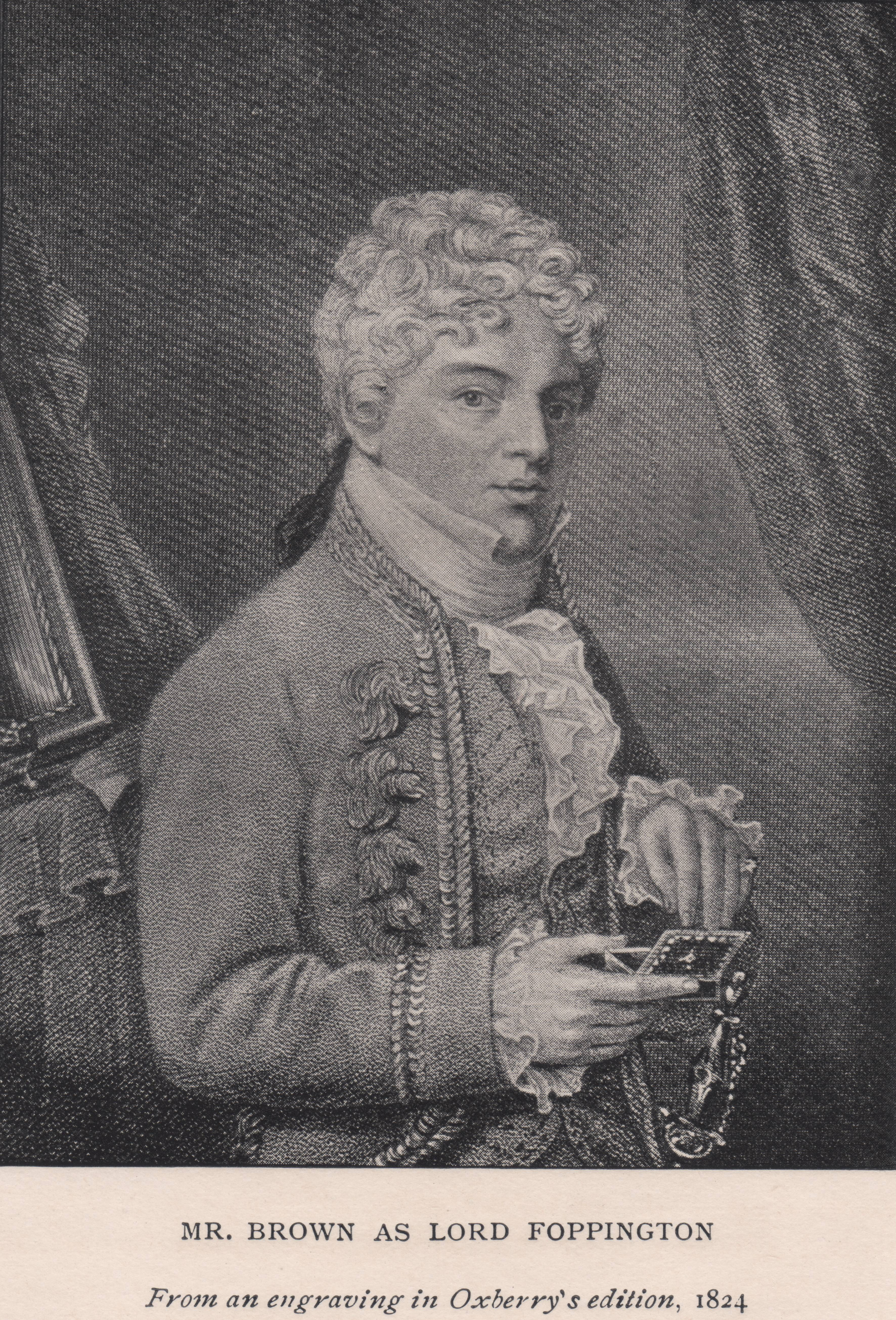 Scanned from The Dramatic Works of Richard Brinsley Sheridan With An Introduction By Joseph Knight And Fifteen Illustrations Oxford Edition Published by Henry Frowde 1906 Oxford University Press Printed by Horace Hart Bookseller label: Boyveau & Chevillet, Paris. Image text: Mr Brown As Lord Poppington. From an engraving in Oxberry's edition, 1824. Book is in the Public Domain in the US and UK Image scanned at 1200 dpi bitmap (colour) then converted to jpeg.